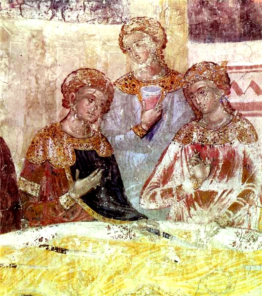 Marriage at Cana Monastery Kalenic unnamed master painter app 1413 Sumadija region Serbia